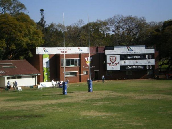 Jubilee ground